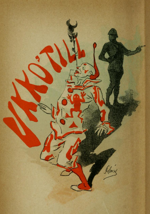 Ukko'Till, frontispice by Jules Chéret for the novel of R. Darzens, Paris: Dentu.